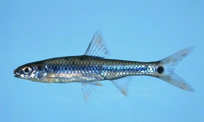 Notropis maculatus